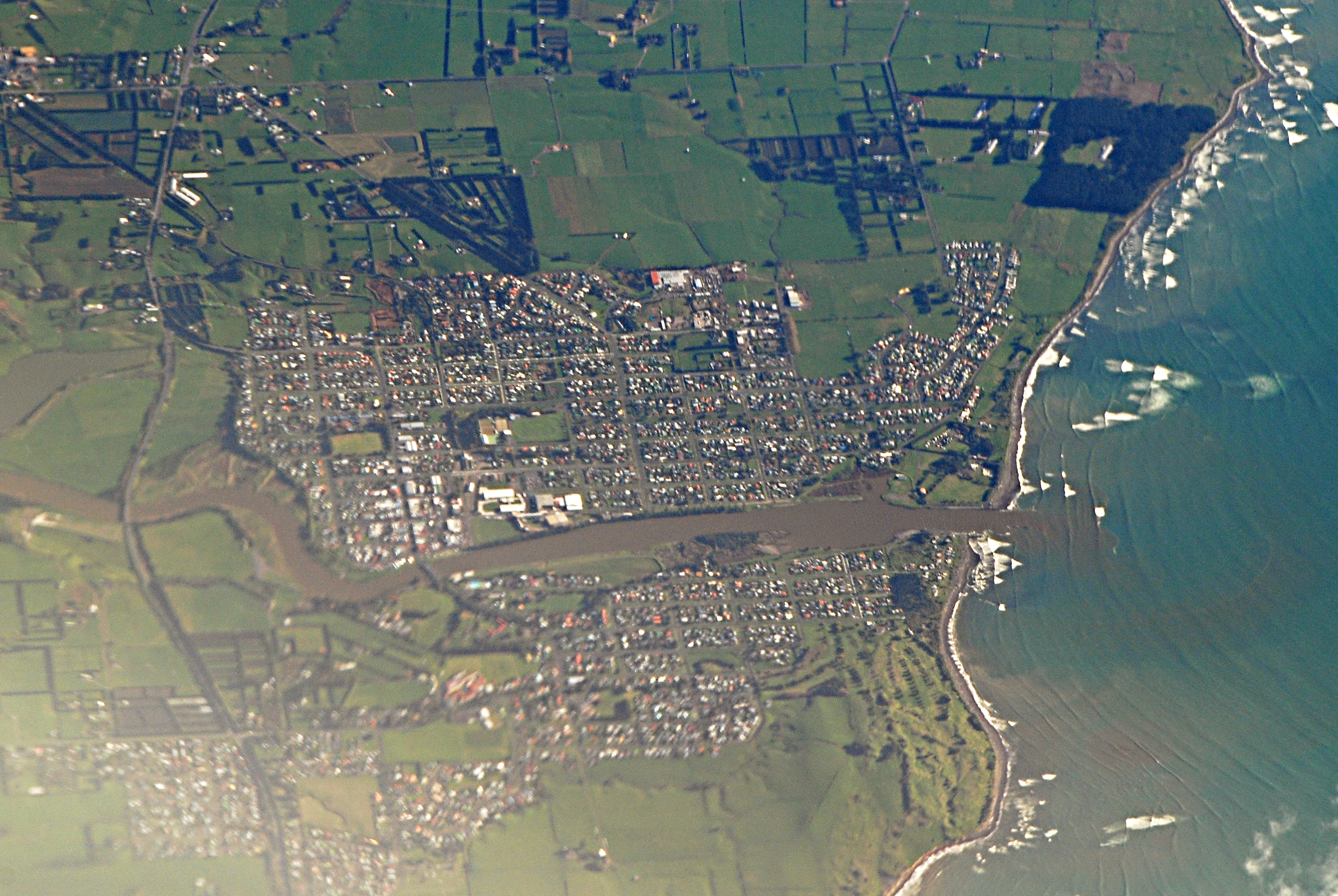 Waitara, Taranaki, New Zealand. Taken en route Auckland to Wellington, 8 May 2007